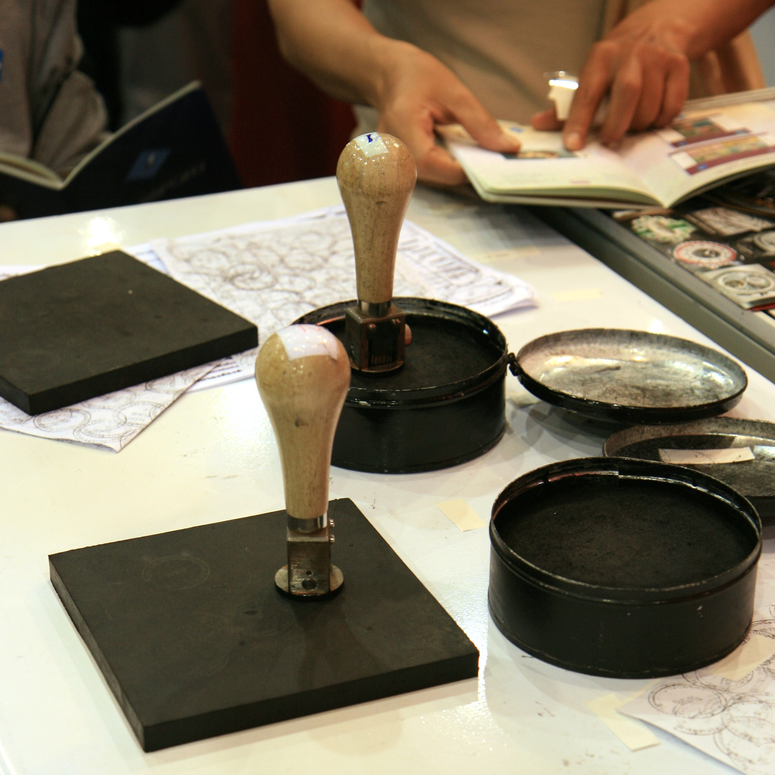 Hand stamp postmark used in Thailand with ink and rubber support. From The 20th annual Asian International Philatelic Exhibition (BANGKOK 2007) held at Paragon Hall, Siam Paragon, Bangkok, during 3-12 August 2007.